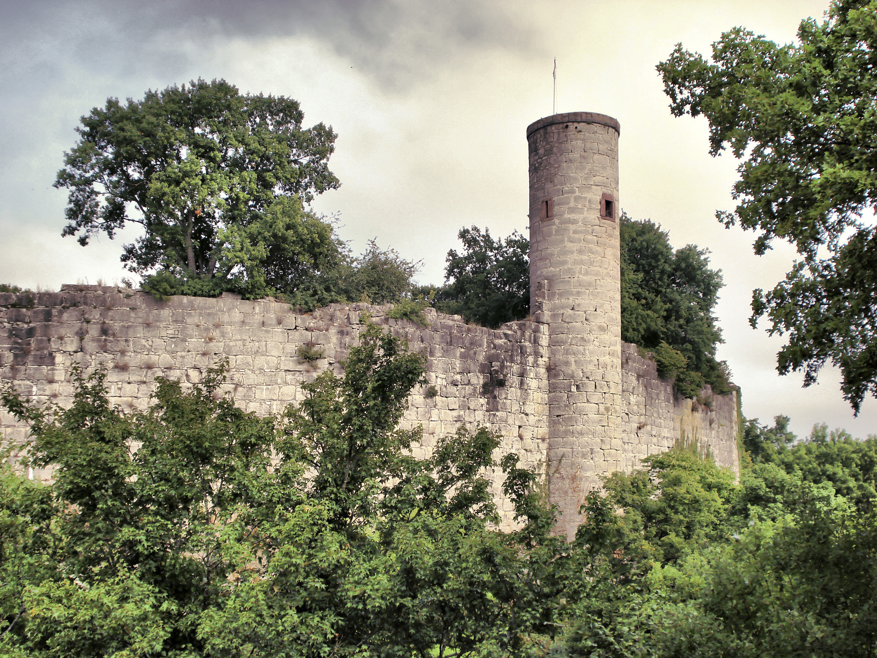 Burgruine Homburg bei Gössenheim (Franken, Deutschland)